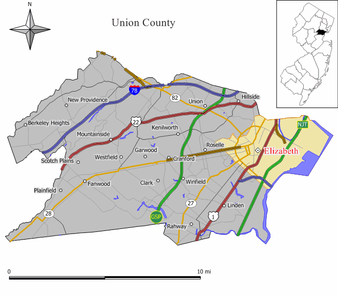 Source: Jim Irwin Original work by Jim Irwin, December 2005.